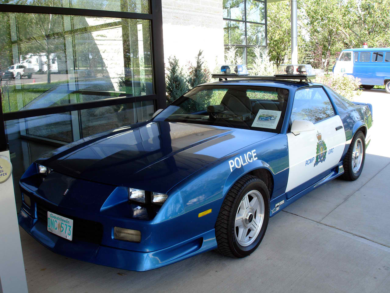 A RCMP Chevrolet Camaro on display in Saskatchewan, Canada. These were used for high-speed chases in the 1990s.